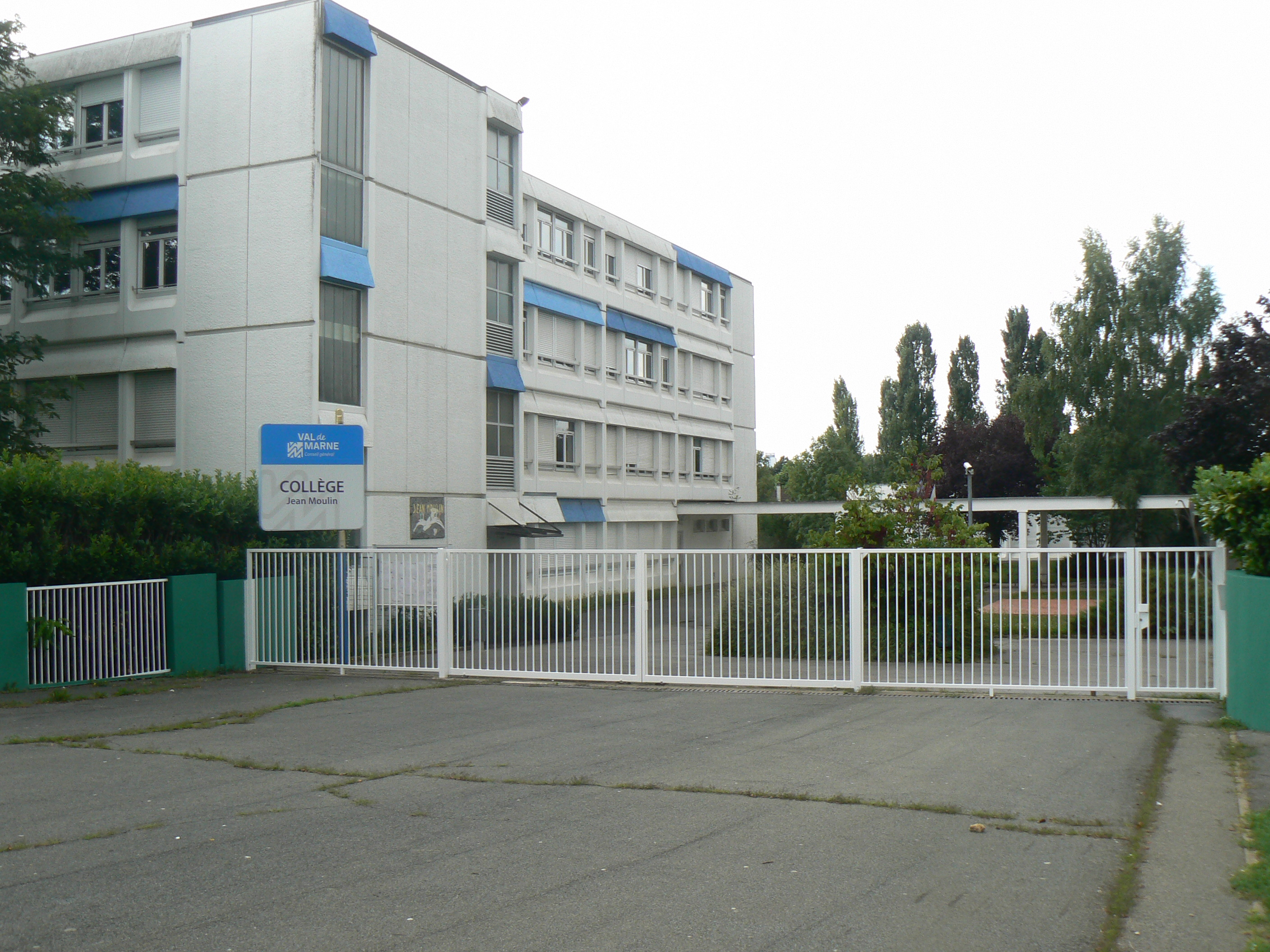 College Jean Moulin, La Queue-en-Brie, France